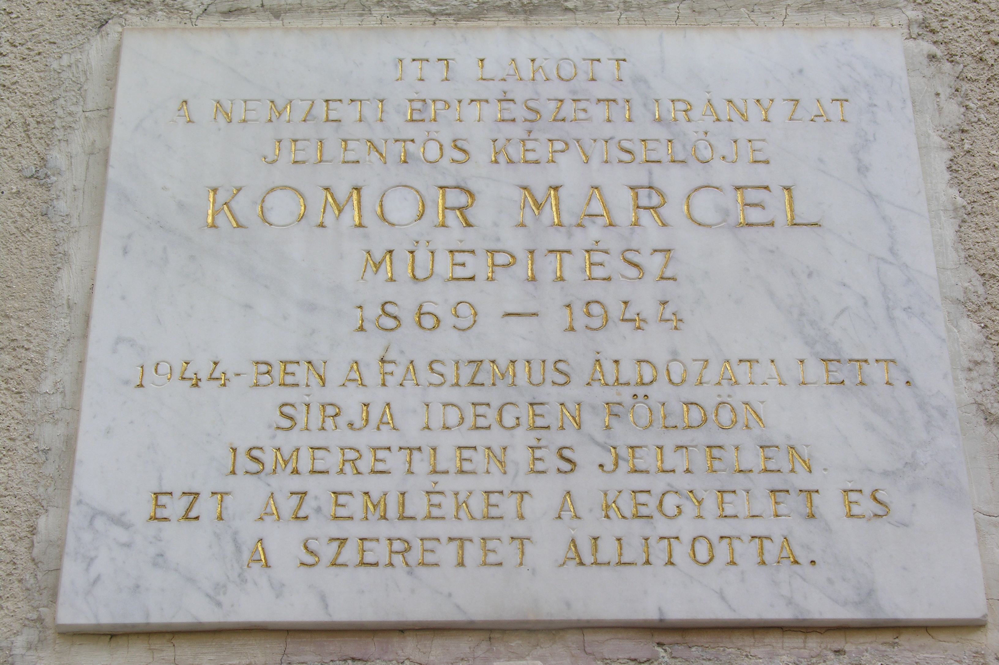 Commemorative plaque of Marcell Komor in Budapest District II, Keleti Károly Street No 31/a